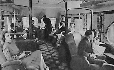 Interior photo of the beaver tail observation car from a Milwaukee Road flyer on the Midwest Hiawatha detailing the changes made to the train's cars since the train's 1940 premiere.